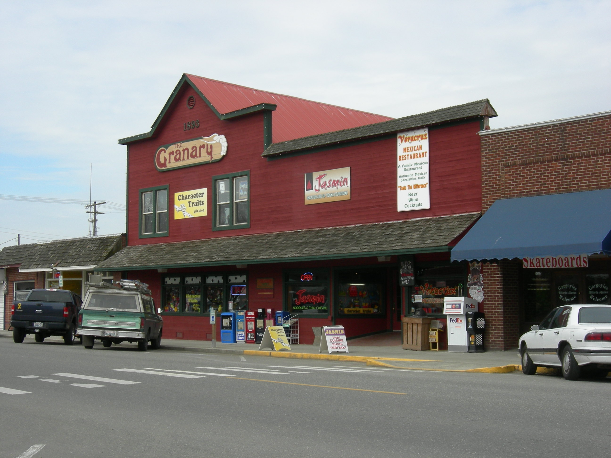 "The Granary" (now shops), Stanwood, Washington.